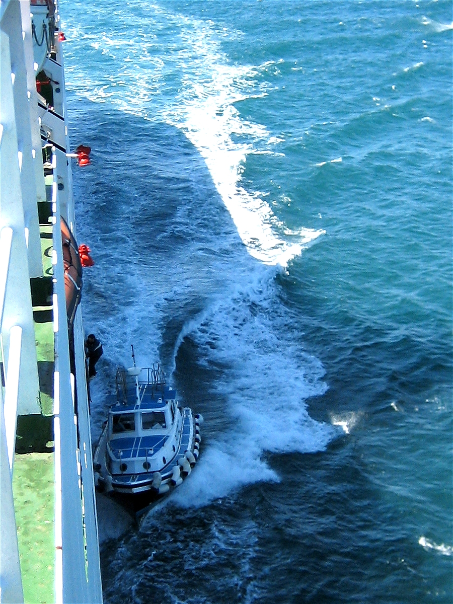 The pilot is leaving the ferry-boat "Ionian Sky" after guiding her out of the harbour of Brindisi in Italy.